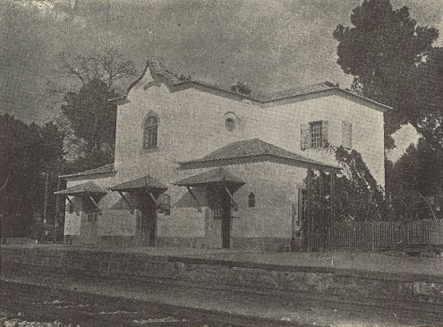 Almourol Railway Station, on the Beira Baixa Railway, in Portugal. This image was originally published on the Gazeta dos Caminhos de Ferro Magazine No. 1293, of the 1st of November 1941, and scanned by the Hemeroteca Municipal de Lisboa.